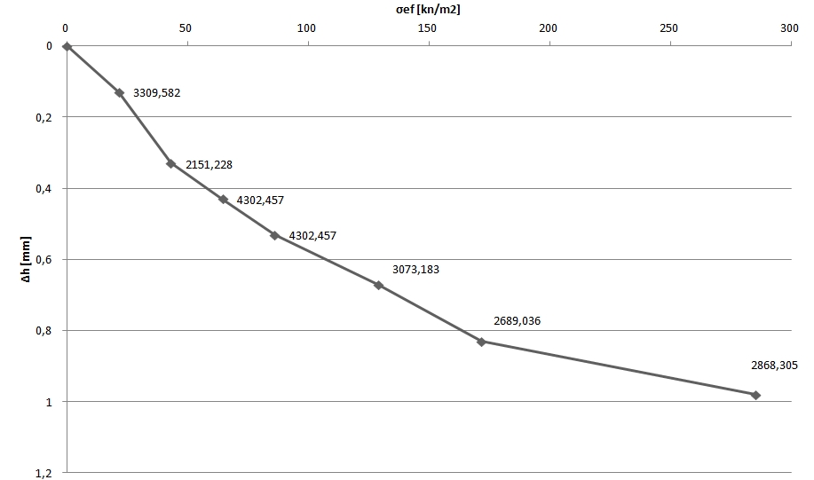 The resulting curve of oedometric test. On the x axis is the effective stress and on the y axis compression.